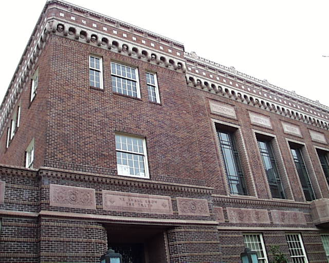 East wing of Knight Library at the University of Oregon